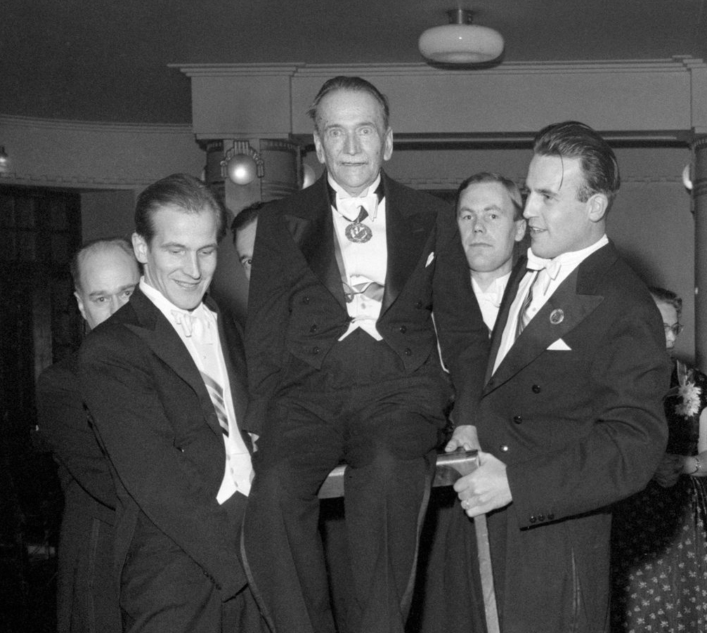 Photograph of the Finnish poet V. A. Koskenniemi being carried to the unveiling of his portrait.